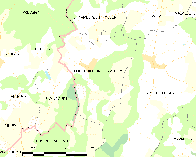 Map of French municipality